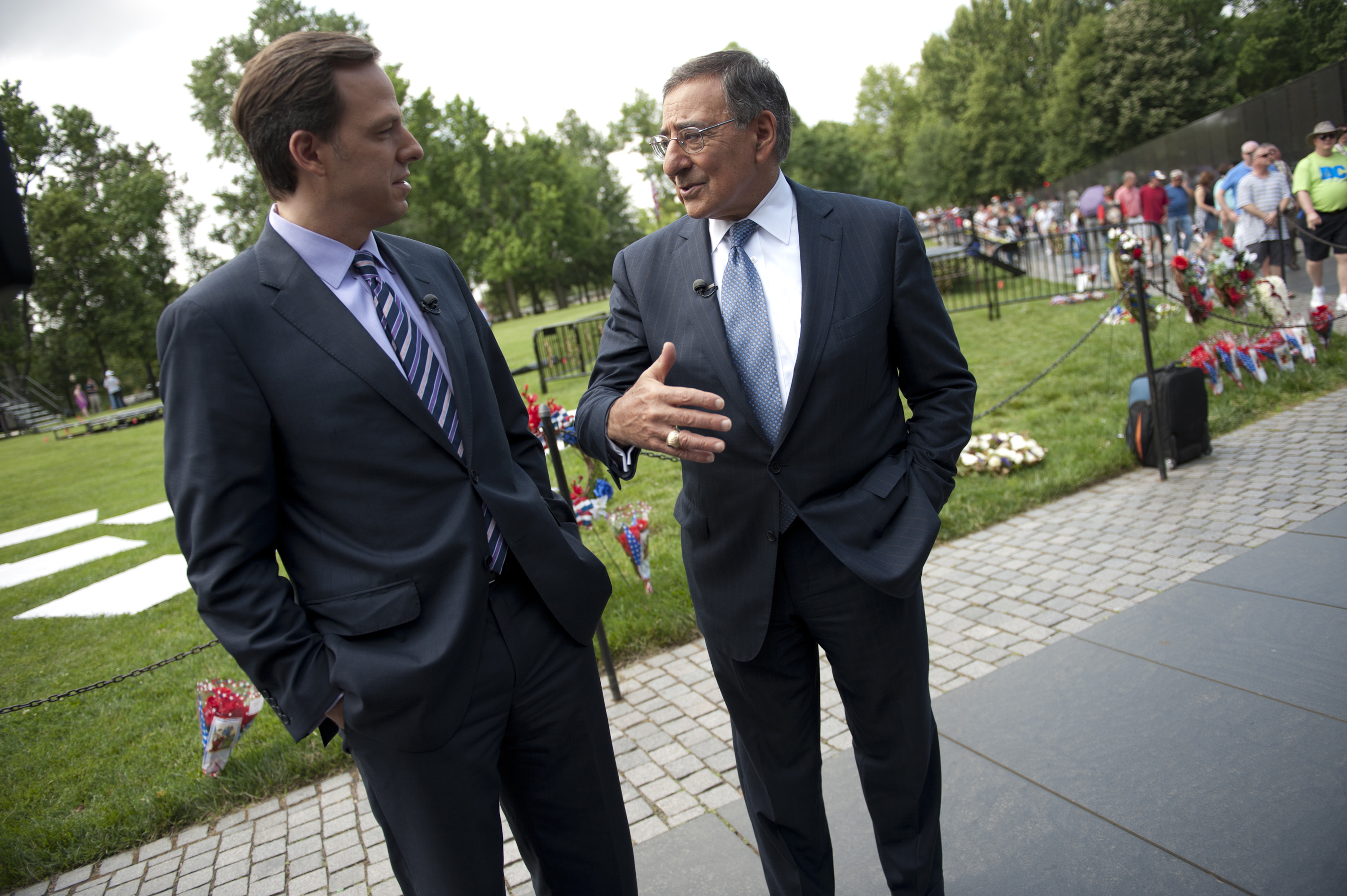 Secretary of Defense Leon E. Panetta is interviewed by ABC's This Week host Jake Tapper at the Vietnam Veterans Memorial, Washington, D.C., May 25, 2012. (DoD photo by Petty Officer 1st Class Chad J. McNeeley/Released)